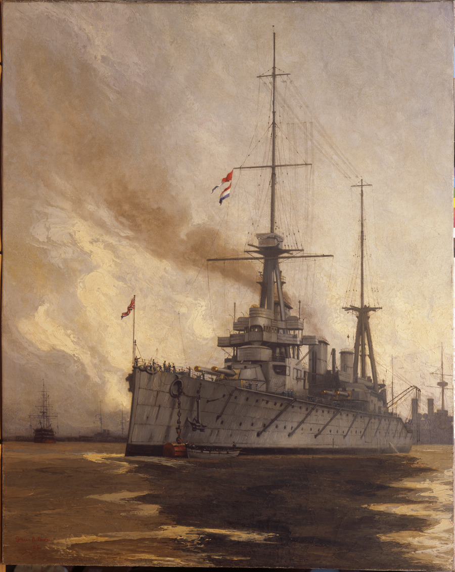 The display 'Capturing Conflict' will be run in parallel with the WW1 in Watercolours (Splash) Watercolour exhibition, held at the Wellington Cathedral of St Paul opening April 18th and running until May 3rd 2015. Archives New Zealand will be supporting the WW1 in Watercolours Watercolour exhibition with the 'Capturing Conflict' display. The display will include scanned images from a number of our war art watercolours. The display at Archives New Zealand's Wellington Office will open on Monday 13th April and run until mid-July 2015, and includes original, large format works like the above record, 'HMS "New Zealand", New Zealand's gift to the Empire' by Gerald Maurice Burn. Author Jenny Haworth will be speaking in the gallery outside the Constitution Room on Thursday 16th and Friday 17th April 2015 from 1pm to 2pm. Her talk covers the war art artists and their works that are held at Archives New Zealand. Gerald Maurice Burn, HMS "New Zealand", 1915 Ref: AAAC 898 NCWA 539